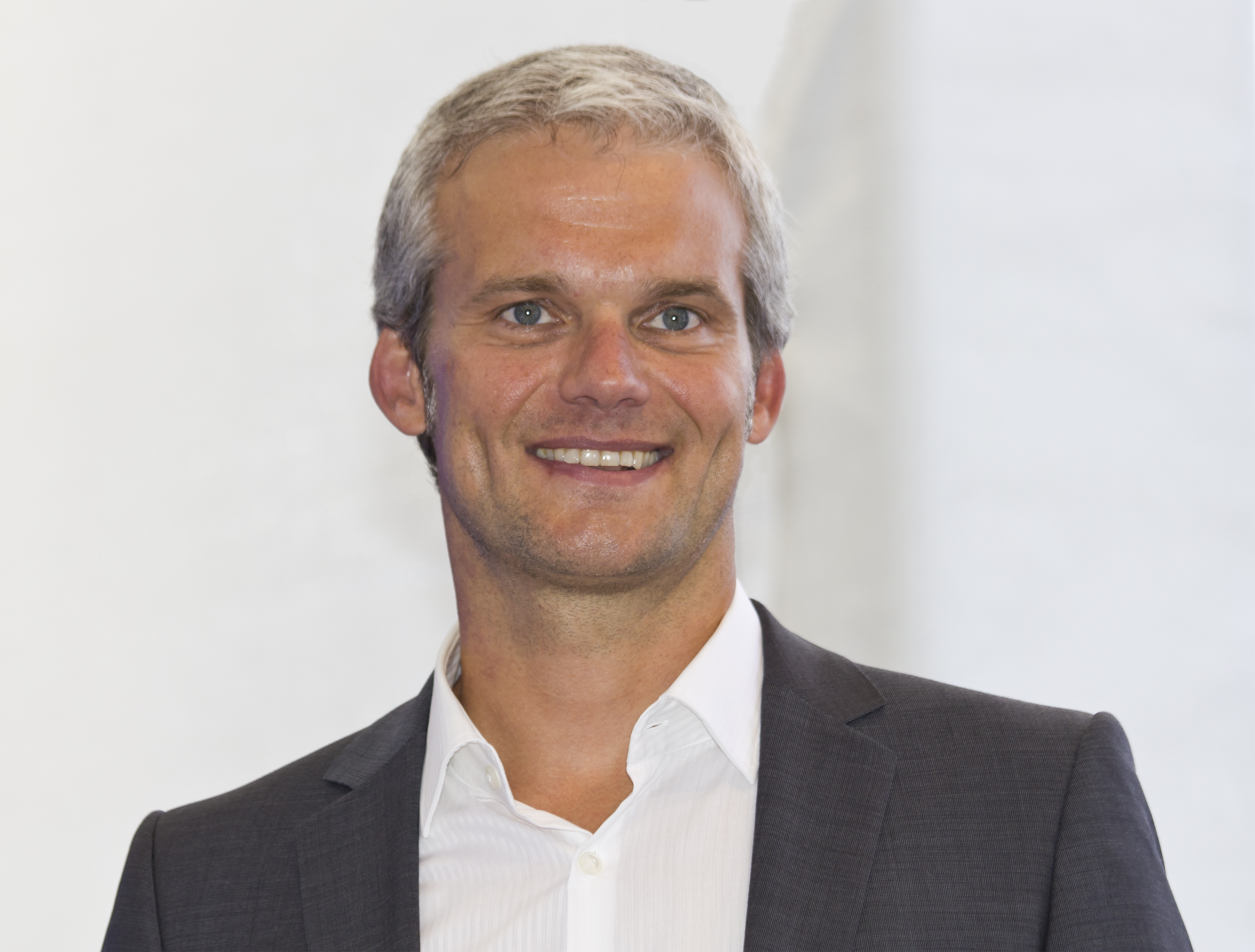 Thorsten Schröder, a TV journalist from Germany